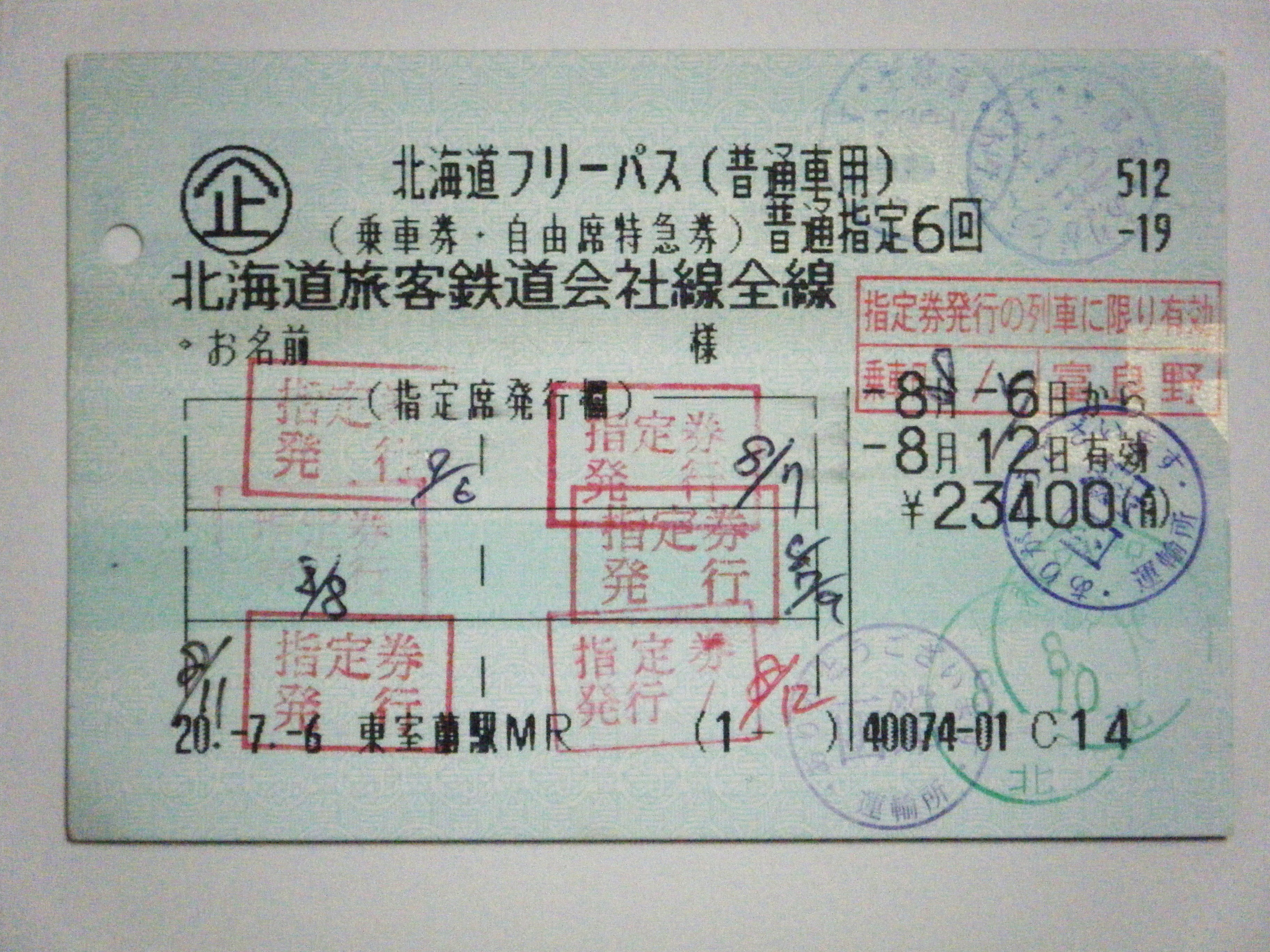 Hokkaido Free Pass for ordinary cars, at the old price